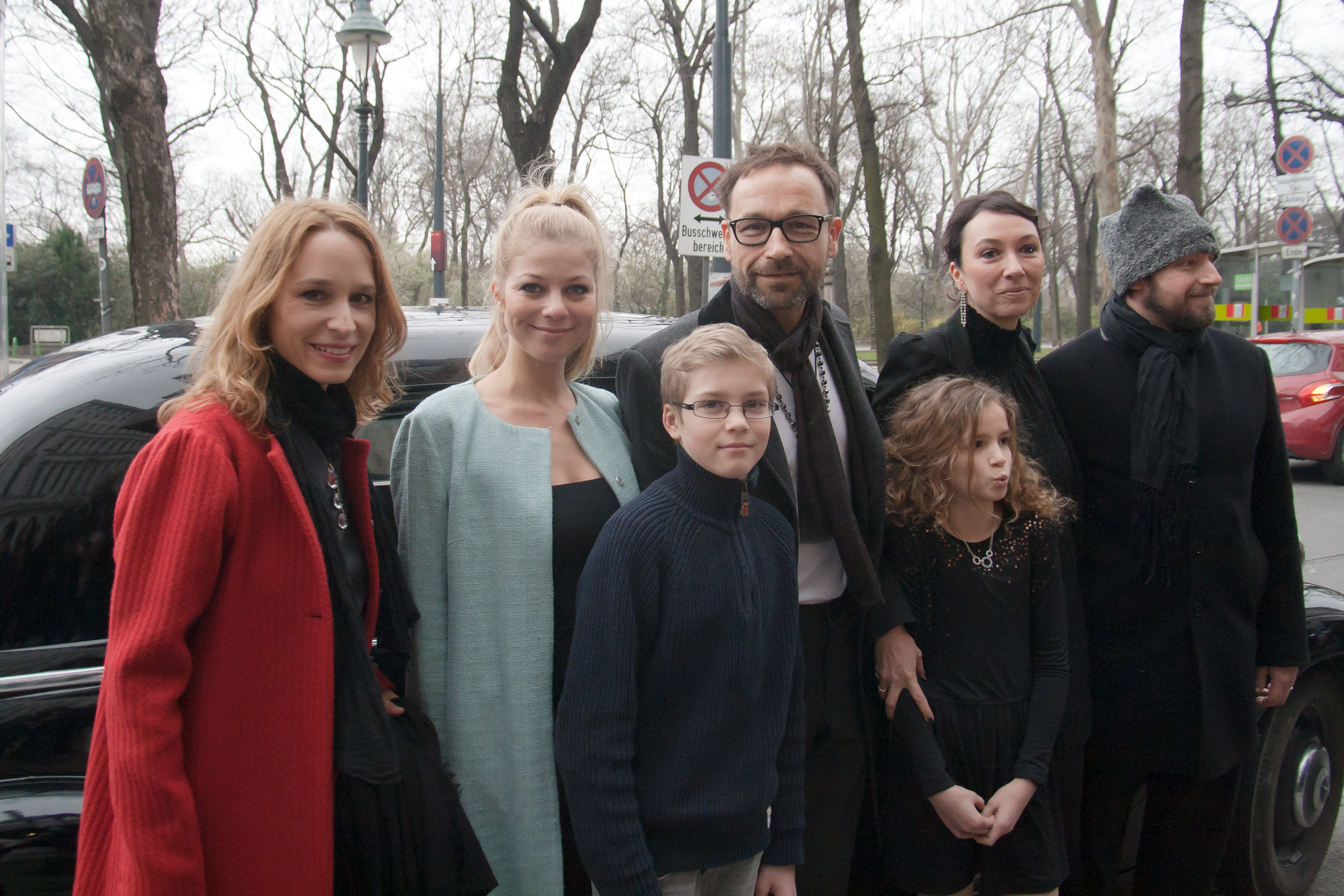 Arrival of Mirjam Unger, Hilde Dalik, Lino Gaier, Gerald Votava, Zita Gaier,Ursula Strauss and ? at the Vienna premiere of Fly Away Home at Gartenbaukino.